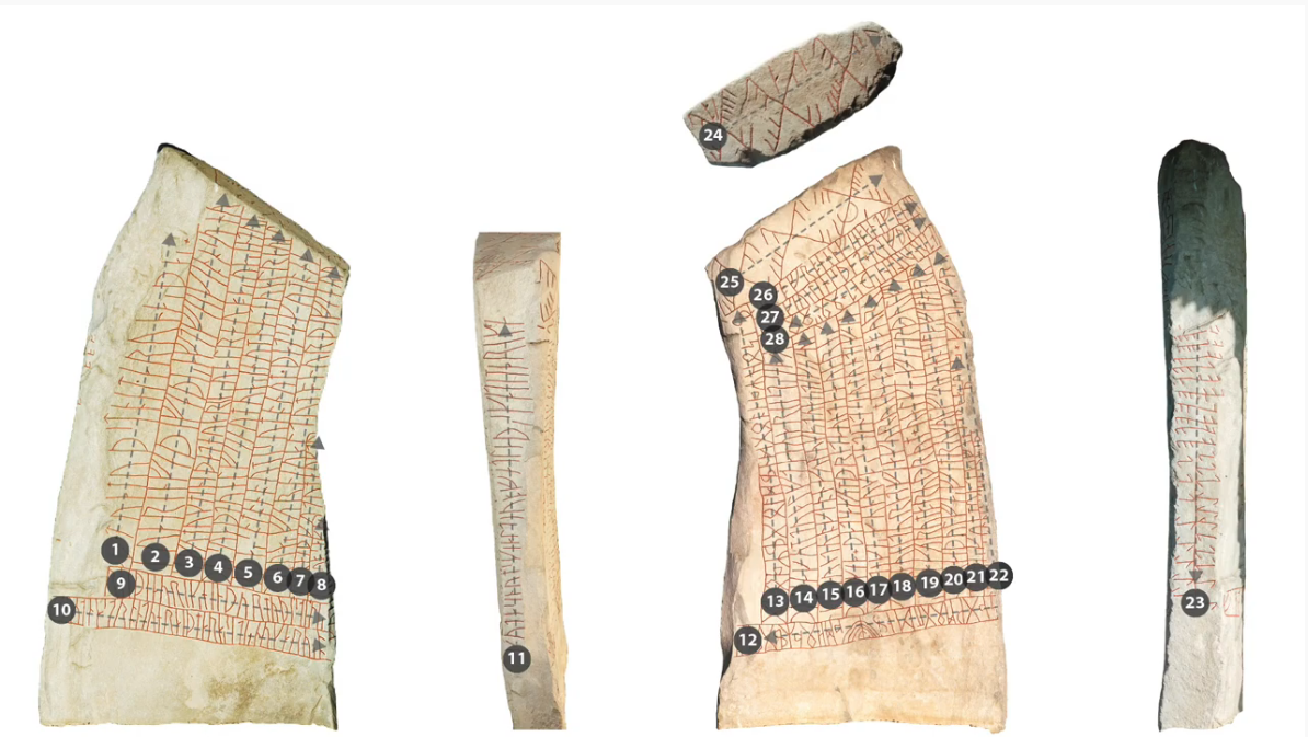 Reading directions for the 28 text rows of the Rök Runestone extracted from the source video, by the Swedish National Heritage Board